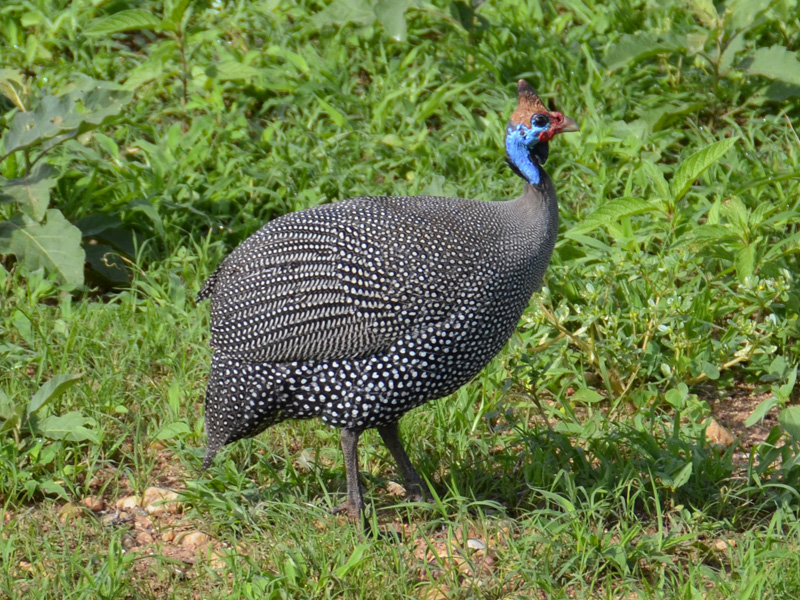 Helmeted guineafowl in Ruaha N.P., Tanzania, early January 2012